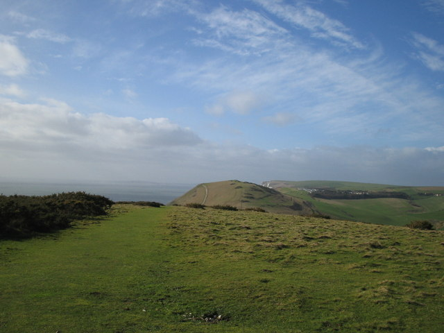 Hambury Tout from hills above Lulworth Cove Stood in front of Lulworth Ranges gate; beyond the cliffs above Durdle Door/St Oswald's Bay.